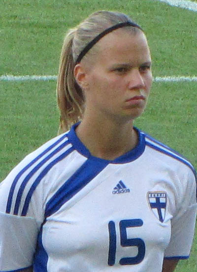 Maija Saari during Finland - Northern Ireland friendly match.